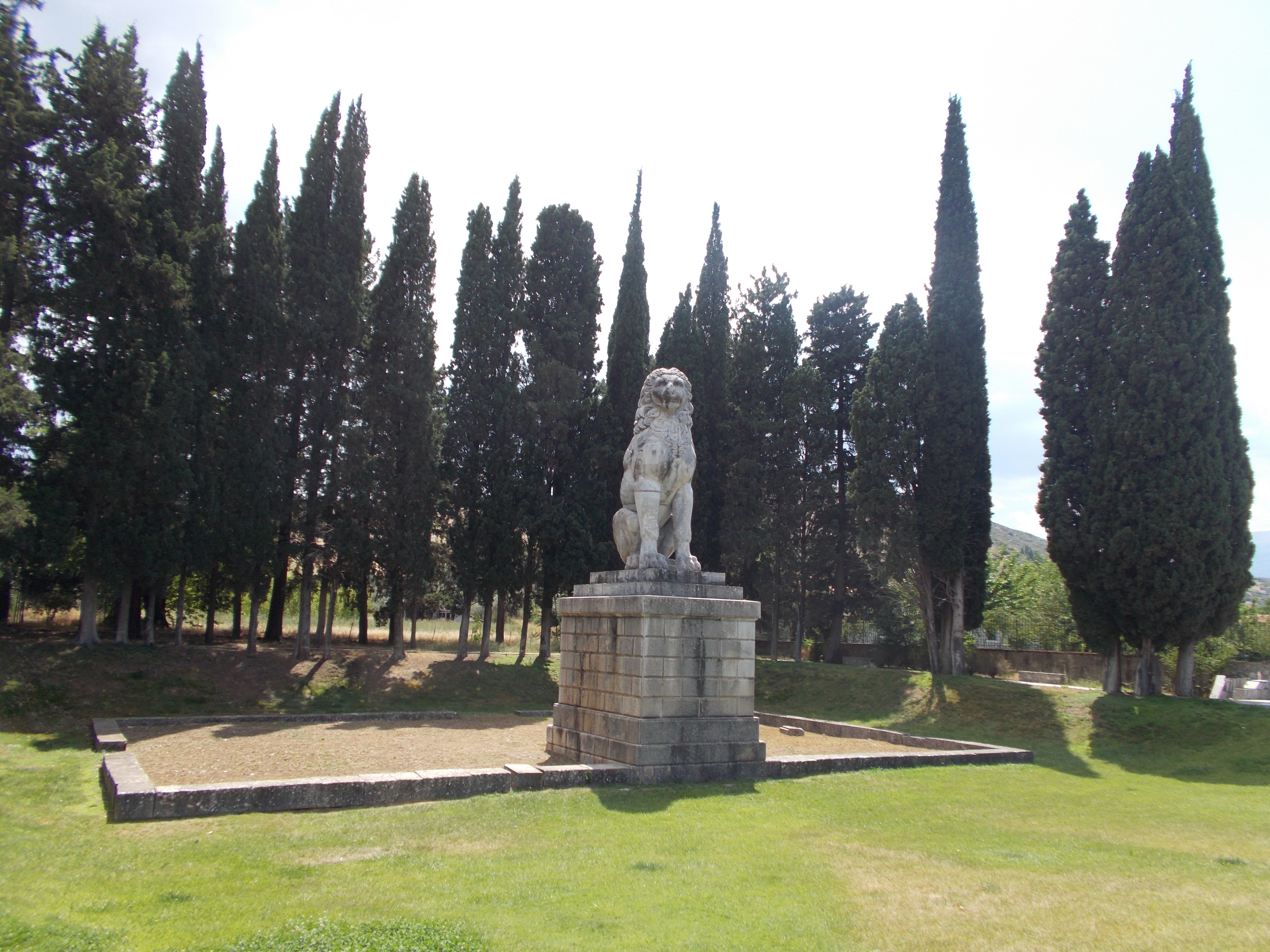 The Lion of Chaeronea